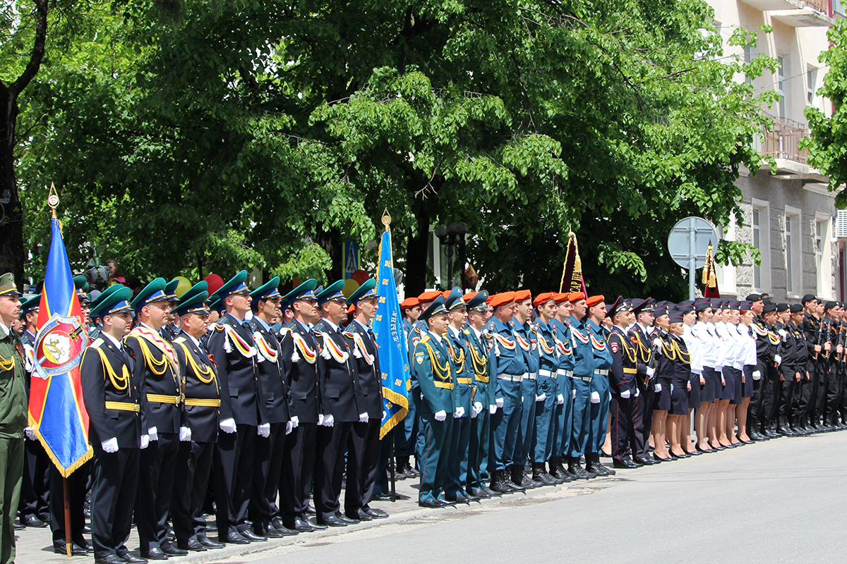 Военнослужащие российской военной базы 58-й общевойсковой армии Южного военного округа (ЮВО) в Республике Южная Осетия приняли участие в параде в ознаменование 73-й годовщины Победы в Великой Отечественной войне